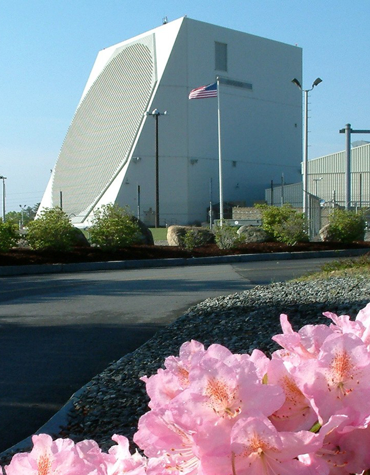 The Pave PAWS at the 6th Space Warning Squadron, Cape Cod, Mass., is an Air Force Radar system designed to guard North America against sea-launched and intercontinental ballistic missiles.